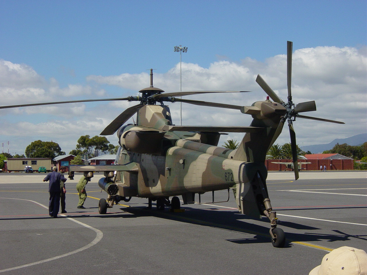 Denel AH-2A Rooivalk en Sudáfrica, de la Wikipedia inglesa Denel AH-2A Rooivalk from Southafrica, from English Wikipedia